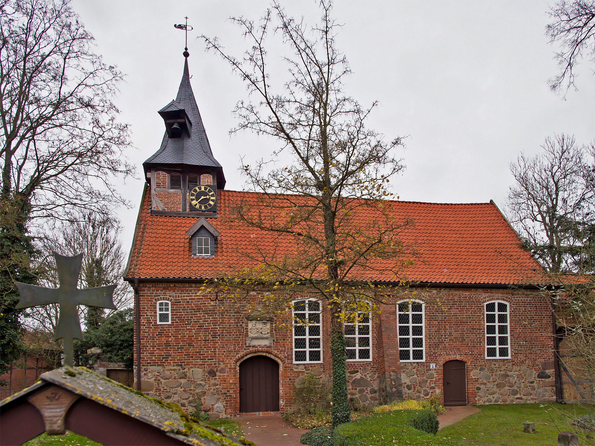 Chapel in the small village "Breese im Bruche", Wendland, Germany.